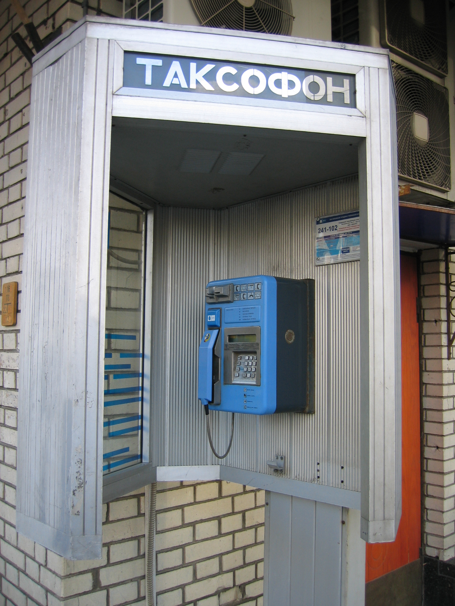 MGTS pay phone in Moscow